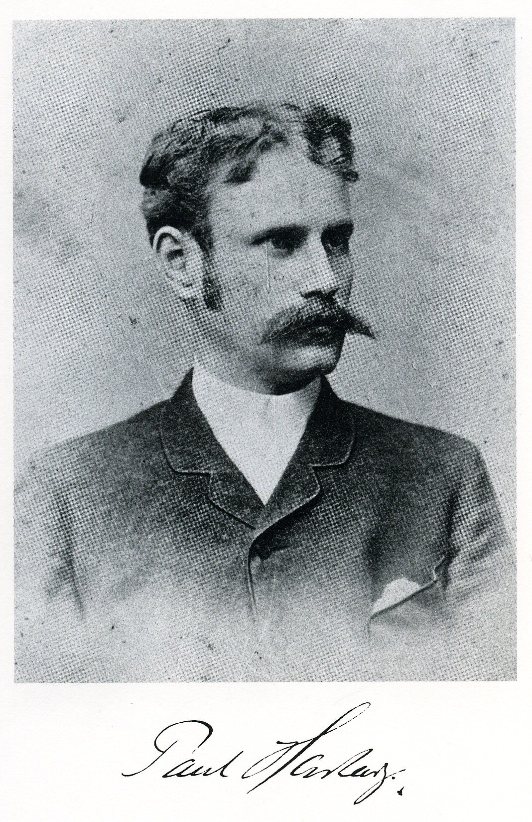 German Archaeologist Paul Hartwig (1859-1919) in the age of ca. 26 (ca. 1885)